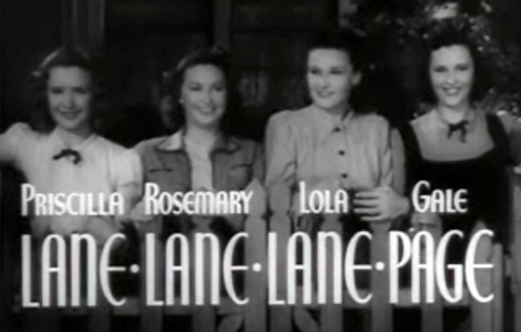 Cropped screenshot of Priscilla Lane, Rosemary Lane, Lola Lane and Gale Page from the trailer for the film Four Wives (1939).